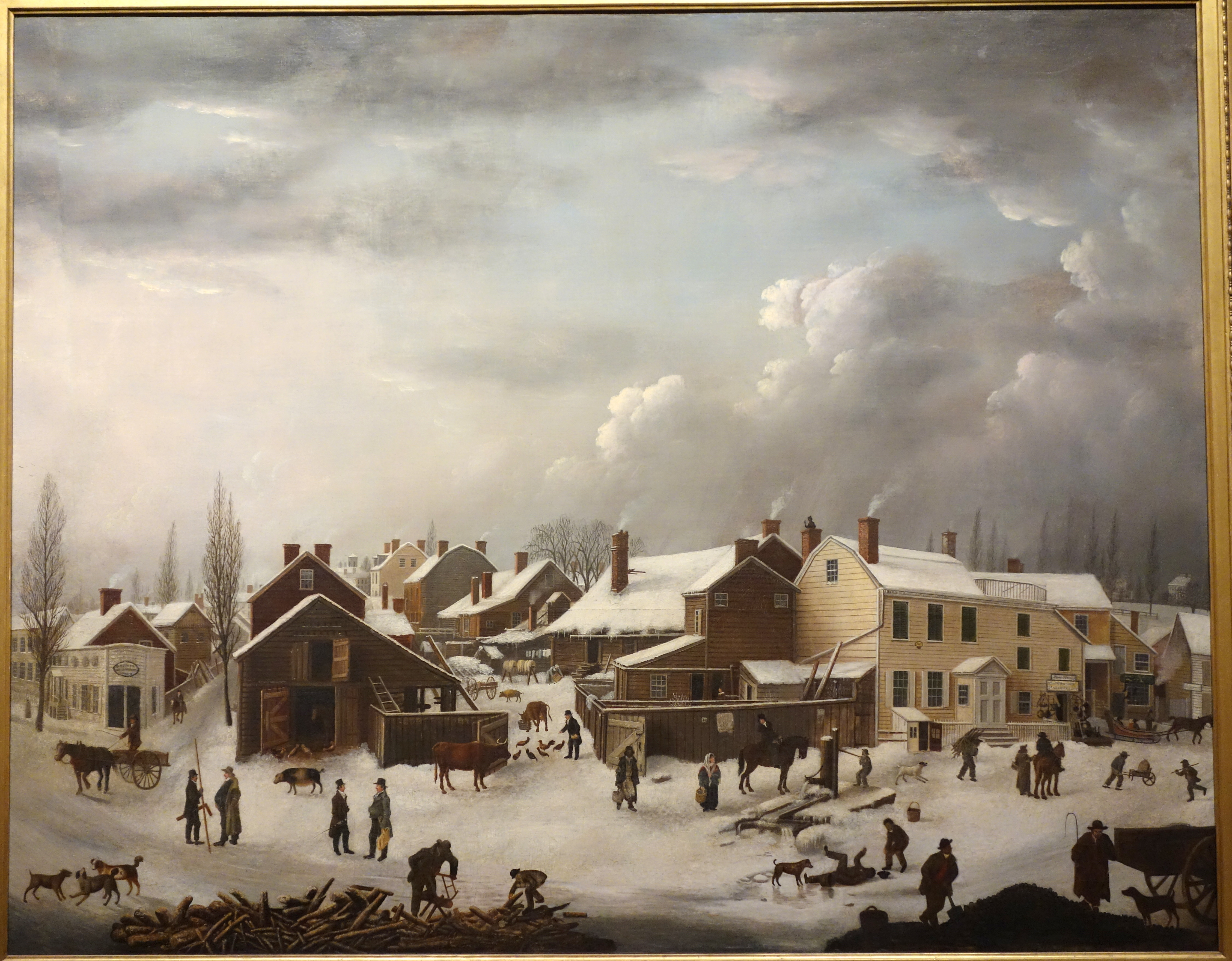 Exhibit in the Brooklyn Museum - Brooklyn, New York, USA. This artwork is in the public domain because the artist died more than 70 years ago.